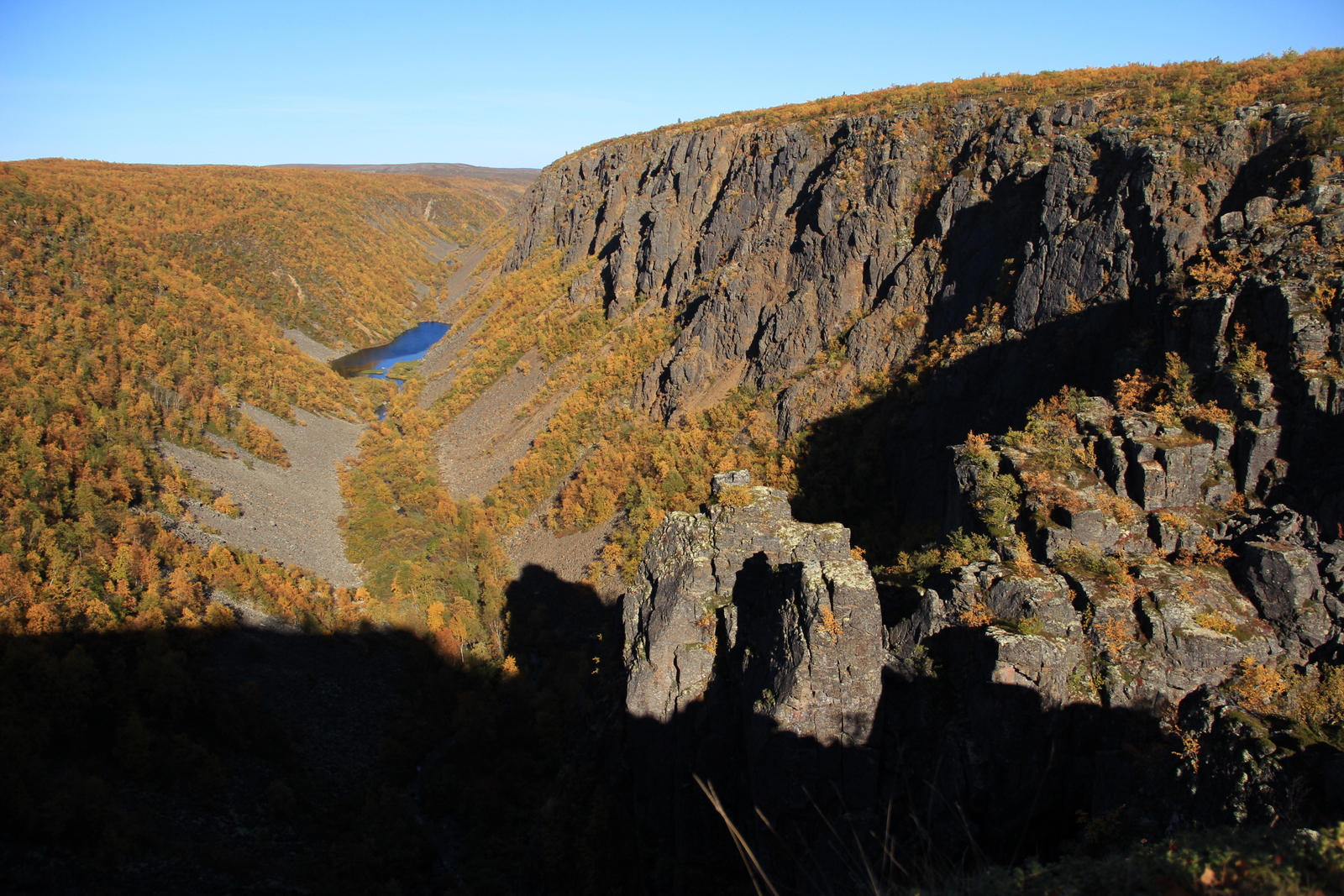 Kevo Canyon at Kevo Strick Nature Reserve in Finland